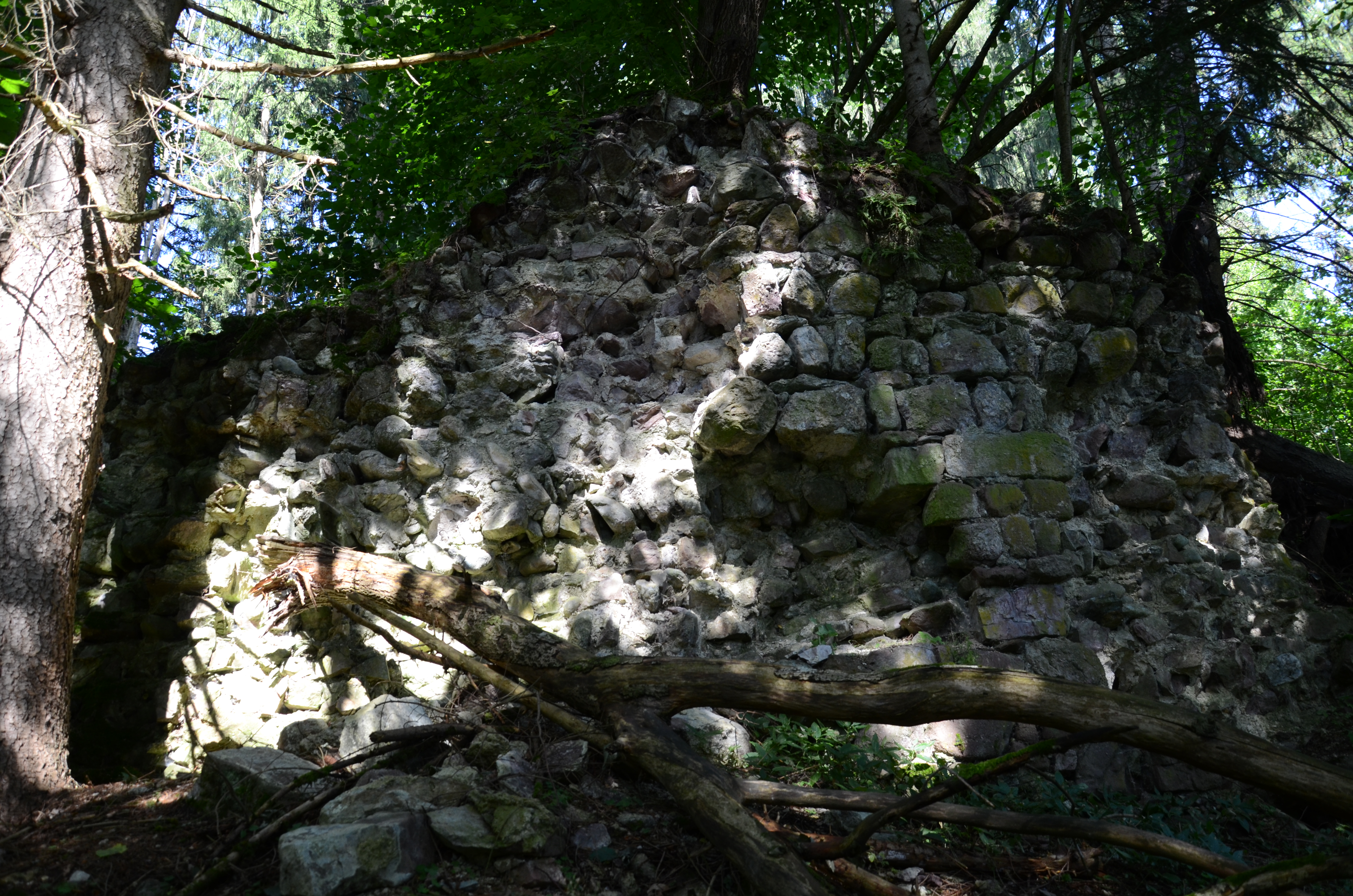 Fragment of the Wehrburg castle in Wörgl (Tyrol/Austria)